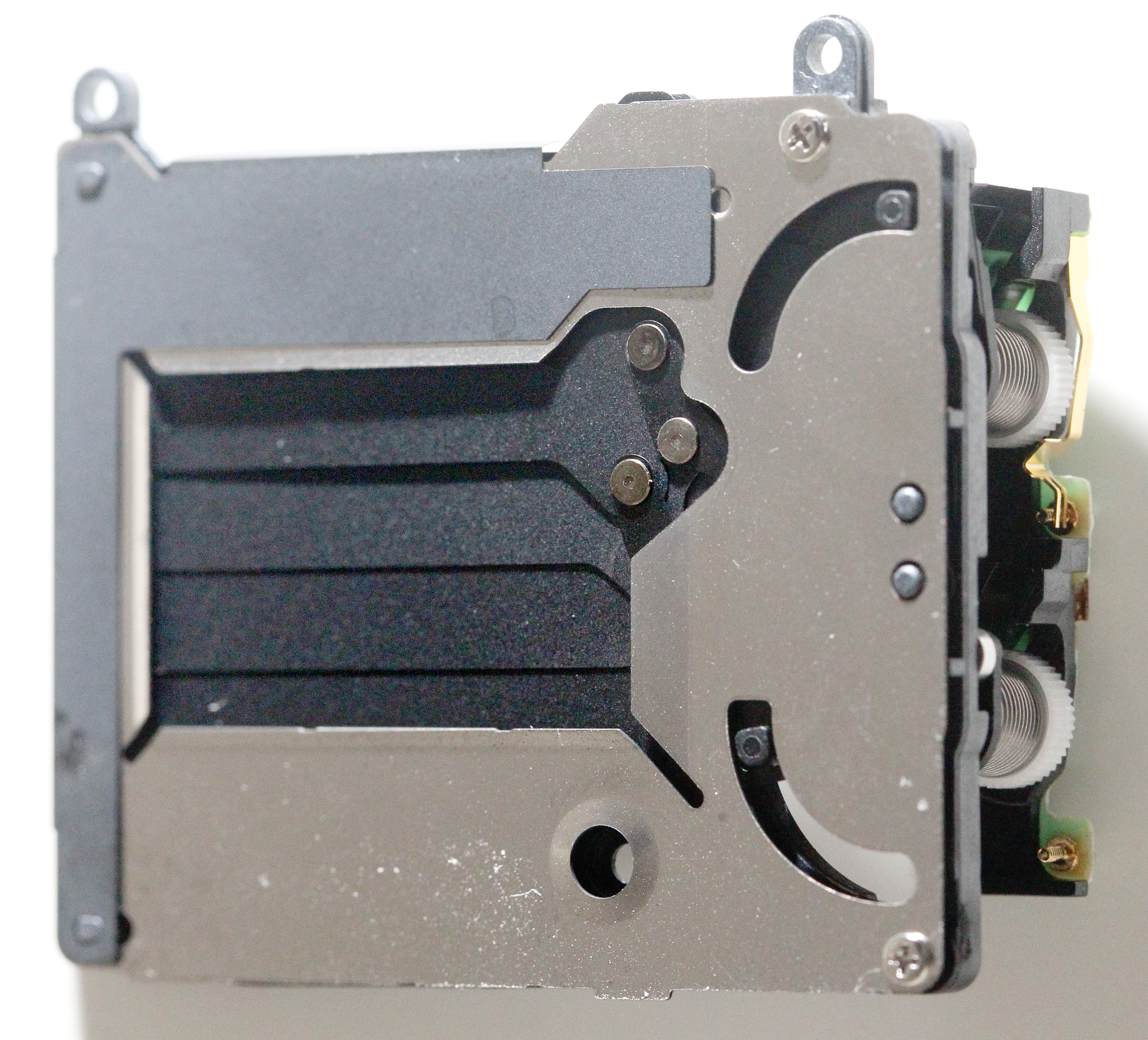 Square-type metal bladed shutter module of 'Canon EOS-20D' DSLR.